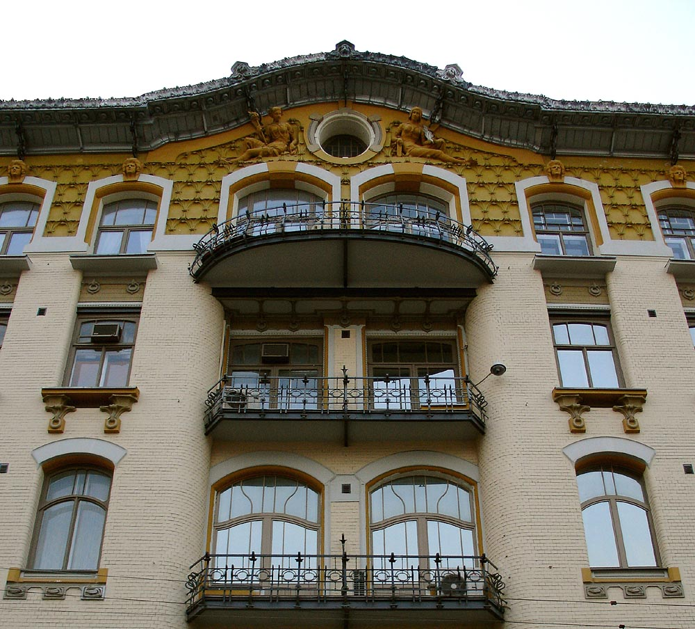 Isakov Apartment Building, architect: Lev Kekushev. Prechistenka Street, Moscow